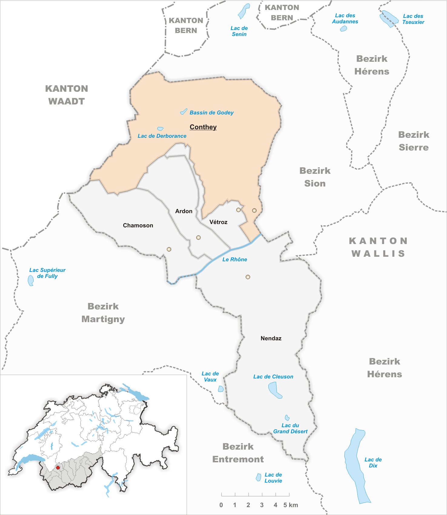 Municipality Conthey